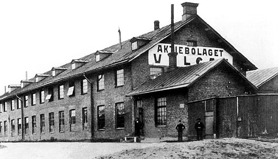 Workshop and office building of Aktiebolaget Vulcan in Turku, Finland. The building was demolished in the end of 1930s.